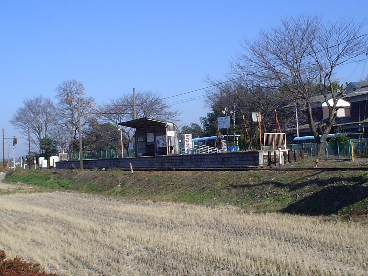 Nagatanino Station in shiga pref, japan